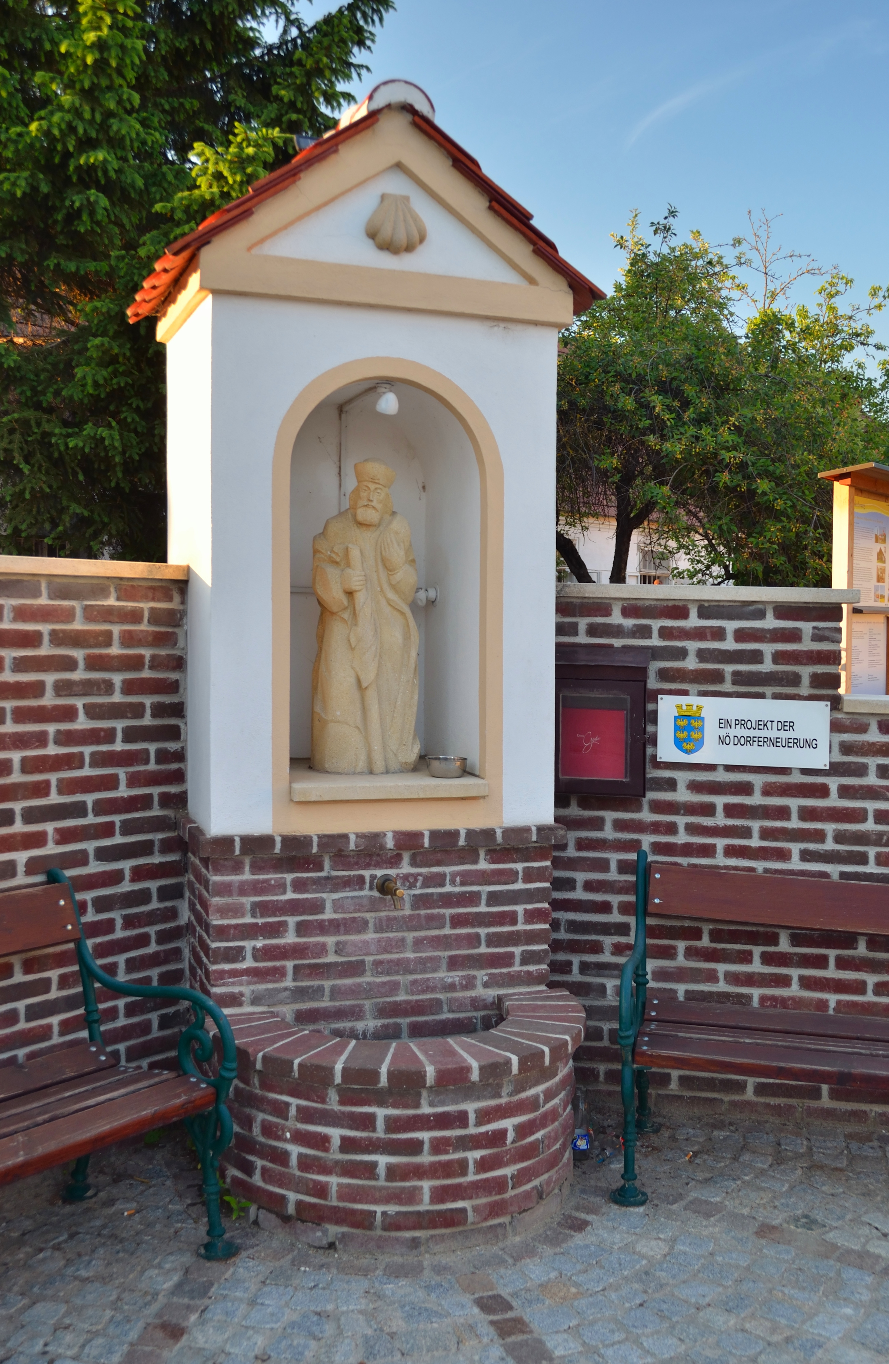 The pilgrimage fountain in Langmannersdorf, municipality of Weißenkirchen an der Perschling, Lower Austria, with drinking water, guest book and statue of Saint James, is part of the Austrian way of Saint James.